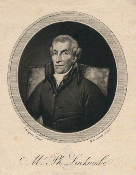 Portrait of Philip Luckombe (c.1730–1803), English printer and writer.